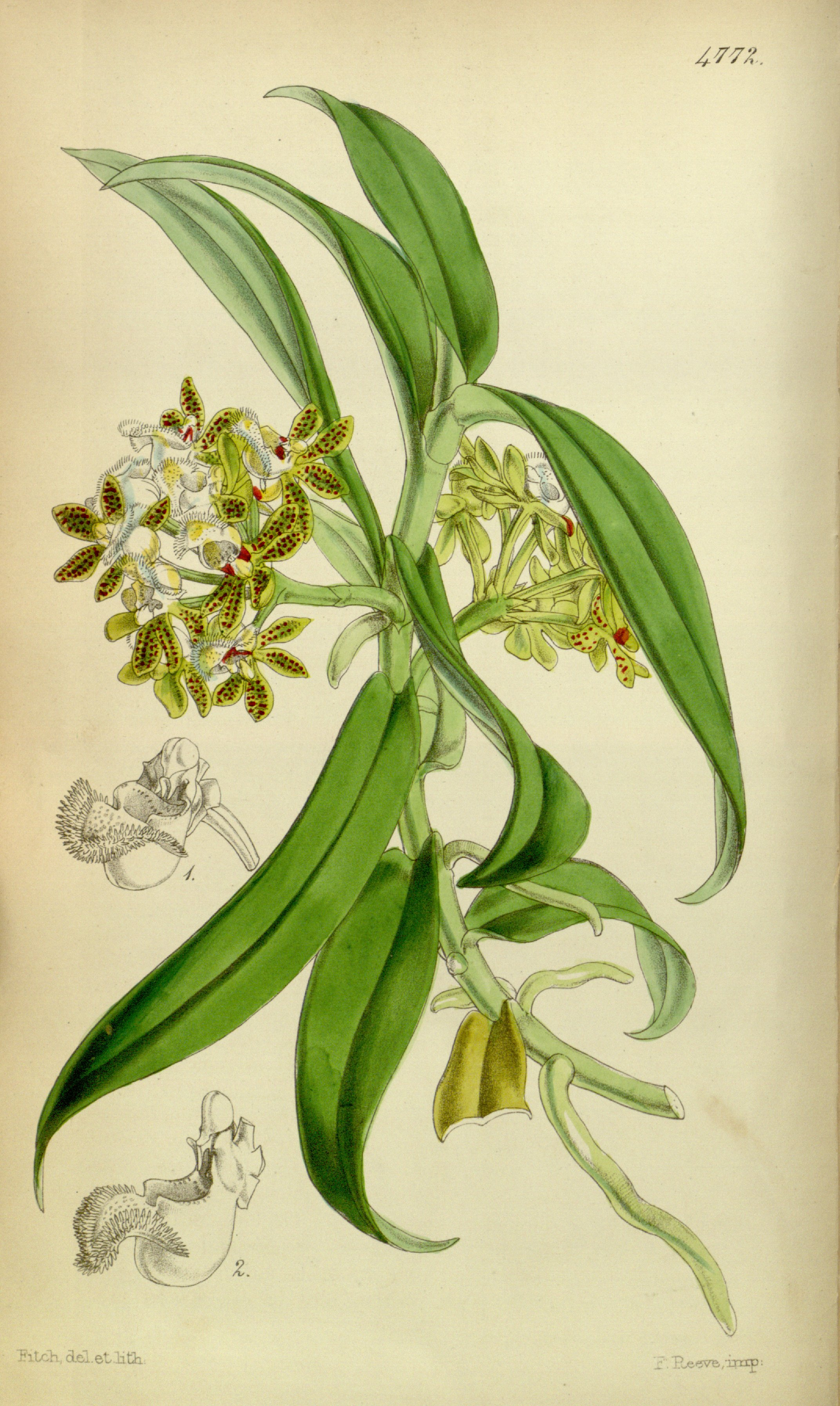 Illustration of Gastrochilus acutifolius (as syn. Saccolabium denticulatum)